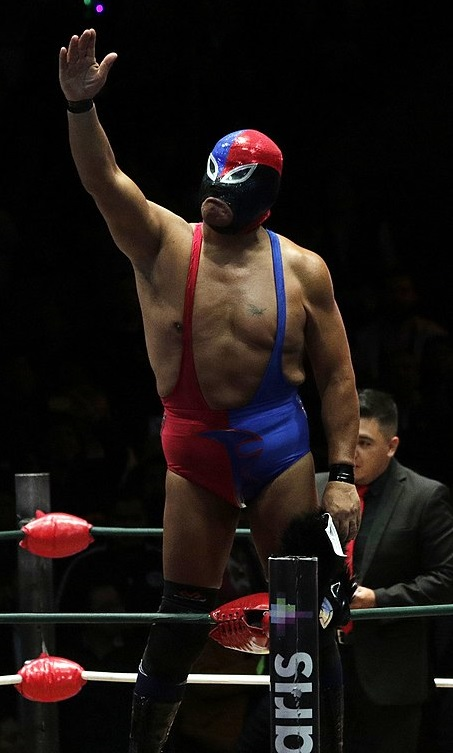 Masked mexican wrestler Fuerza Guerrera in the ring